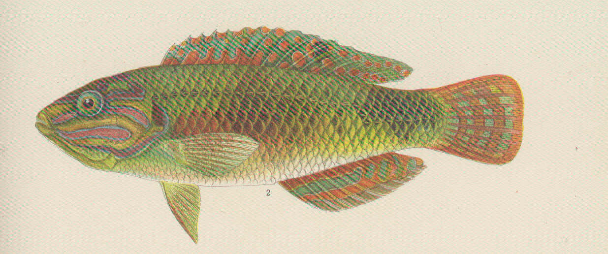 Halichoeres daedalma (Jordan & Seale) Subject: Wrasses Tag: Fish